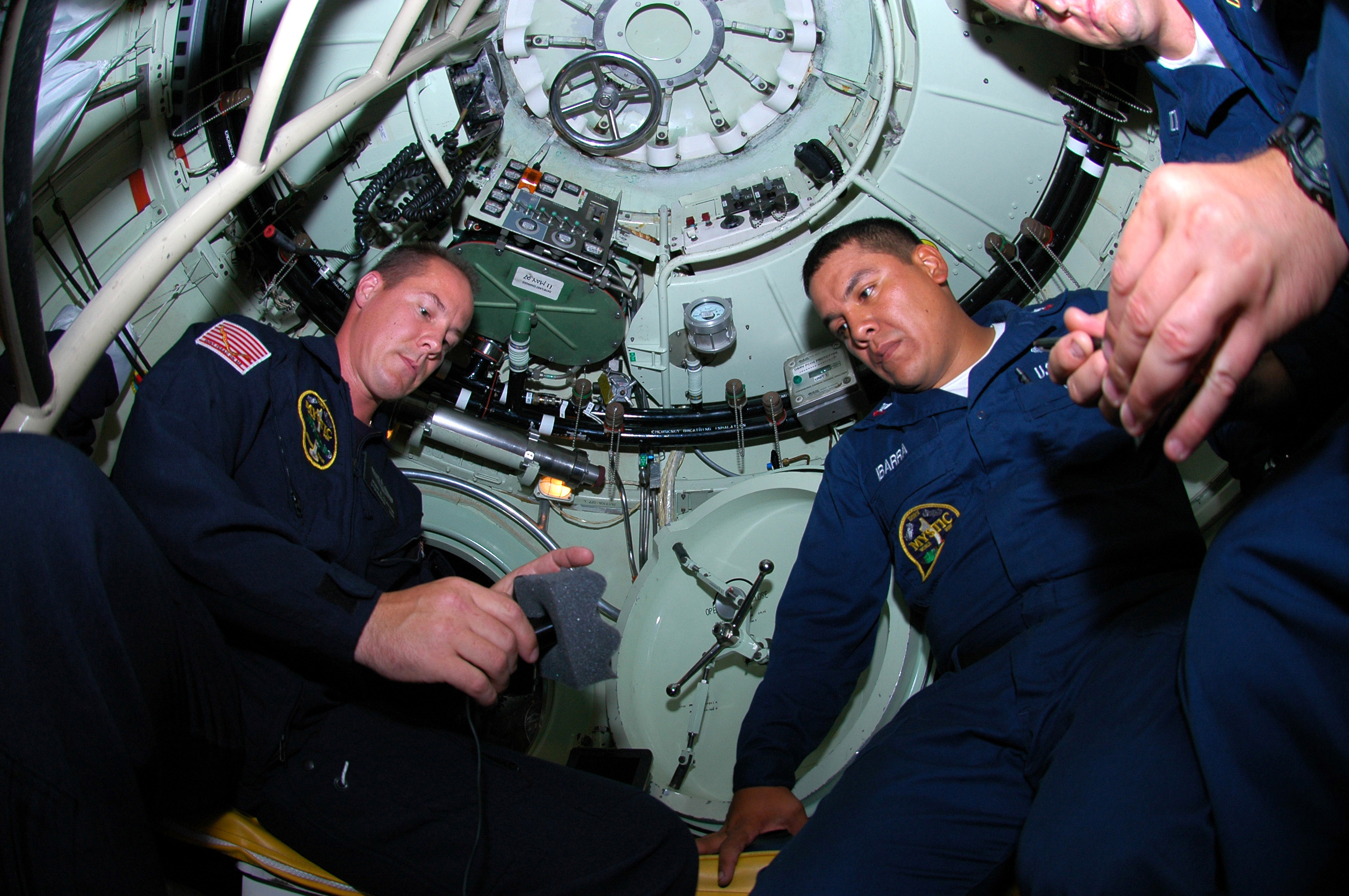 SAN DIEGO (July 23, 2007) - (from left) Sonar Technician 1st Class Jason Clayton shows Machinist Mate 2nd Class Eddie Ibarra and Mystic's Engineer Officer Lt. Rich Ray how to install one of Mystics many on board cameras as the crew finishes preparations for a training launch off the coast of San Diego. Mystic and her crew maintain their "rescue ready" status by continually using both underway and in-port training to hone their submarine rescue skills. U.S. Navy photo by Mass Communication Specialist 3rd Class Jennifer S. Kimball (RELEASED)